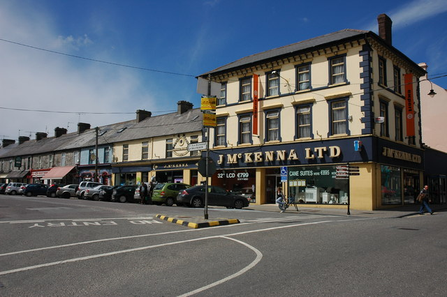 Ballybunion Road, Listowel